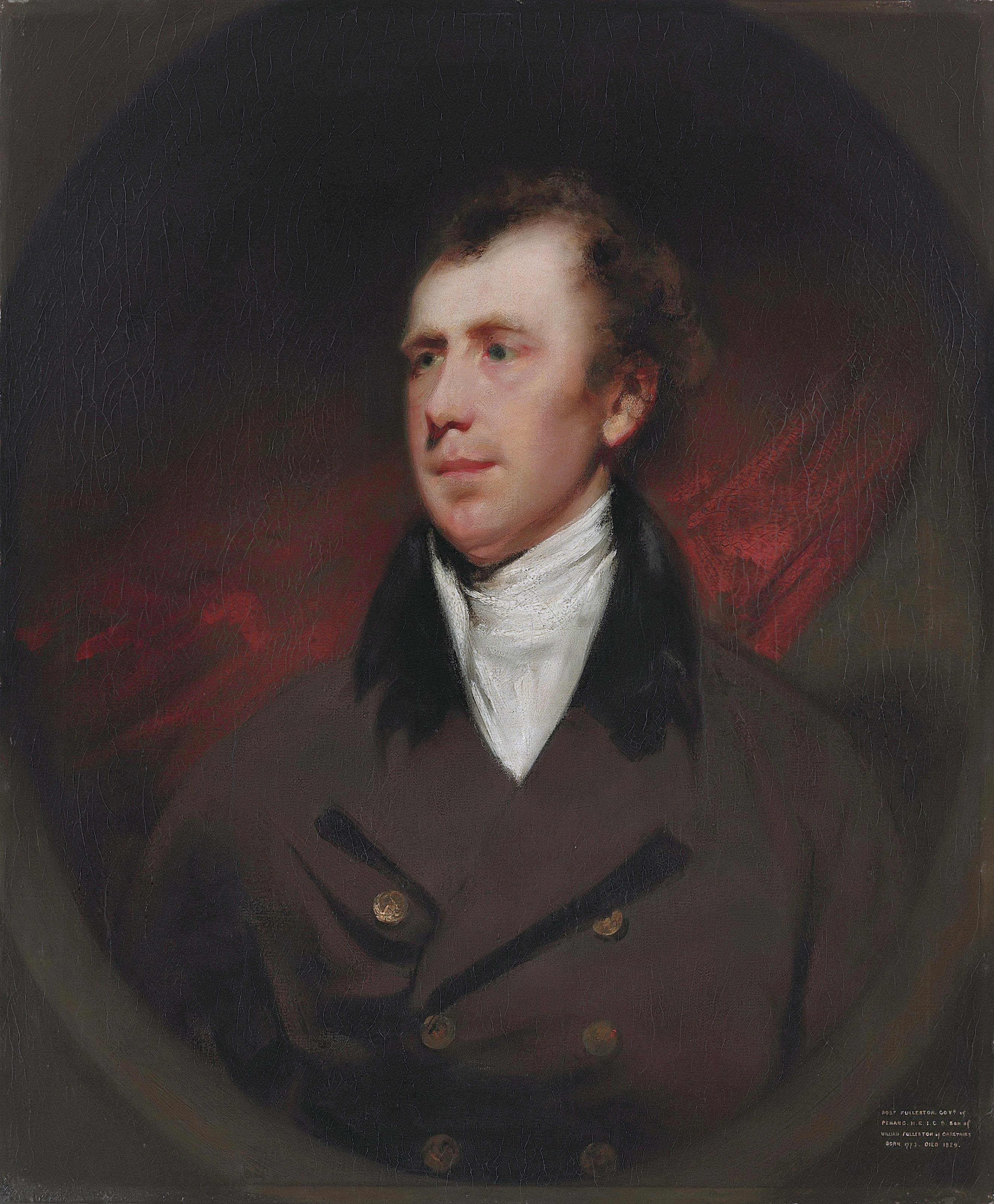 Robert Fullerton, Governor of Penang and first Governor of the Straits Settlements oil on canvas 77 x 64cm inscribed afterwards: ROBT FULLERTON, GOVR of / PENANG, H.E.I.C.S. son of / WILLIAM FULLERTON of CARSTAIRS / BORN 1773. DIED 1829